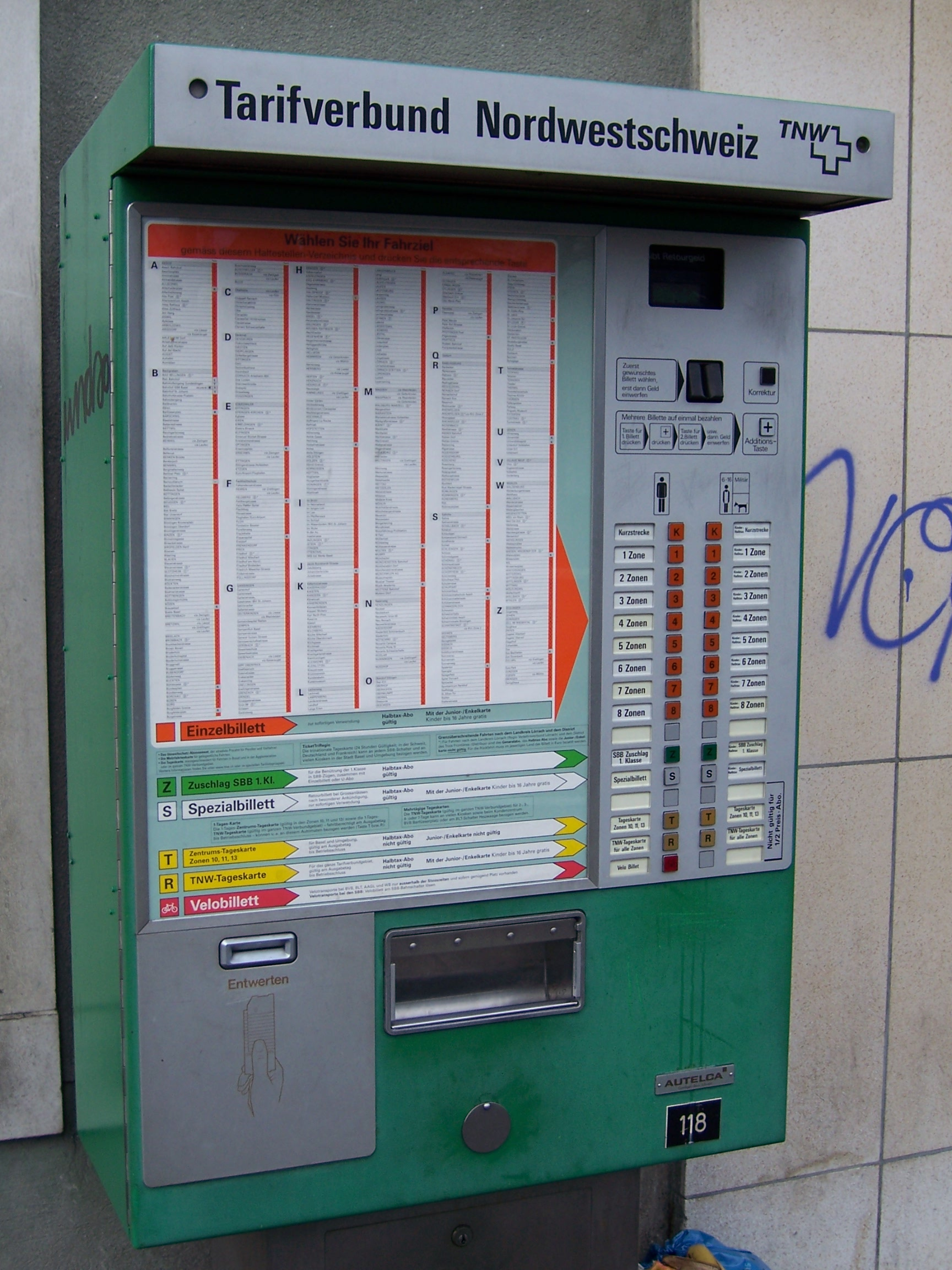 TNW Billettautomat at Bernoullianum bus station